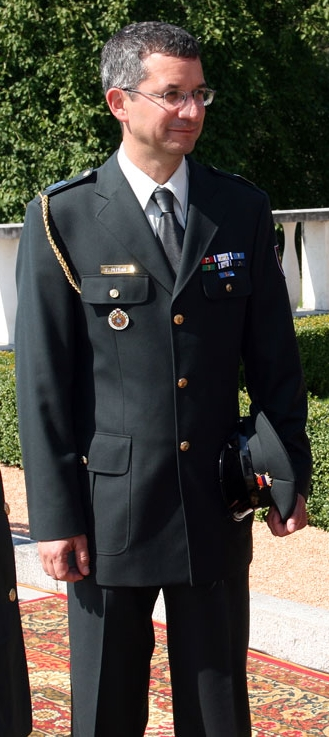 Karl Erjavec, Primož Kozmus, Rajmond Debevec and Lucija Polavder